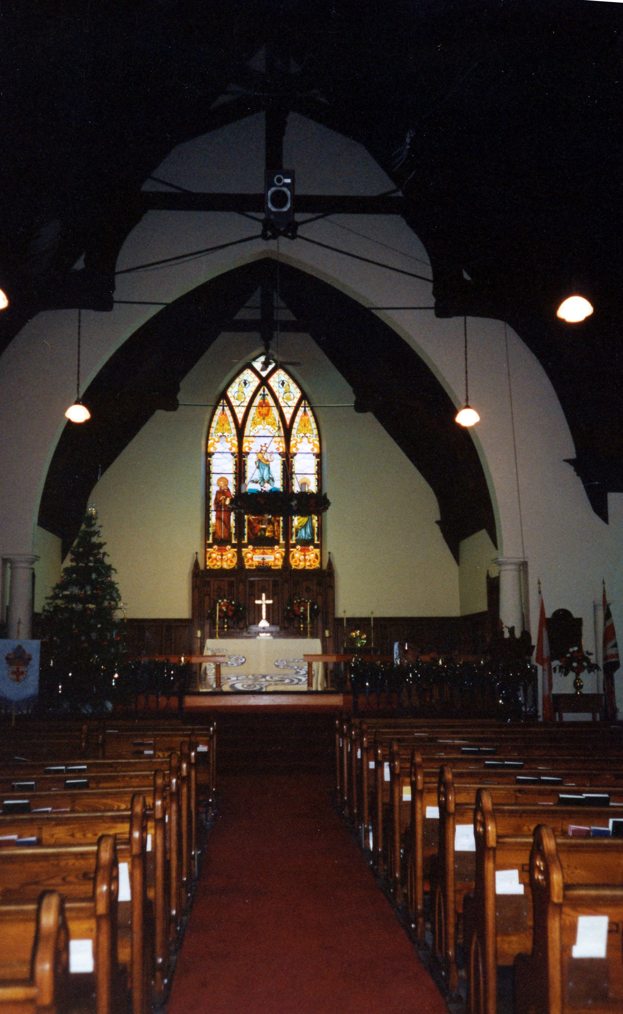 St. Paul's Anglican, Regina, December 1990 Other information None relevant